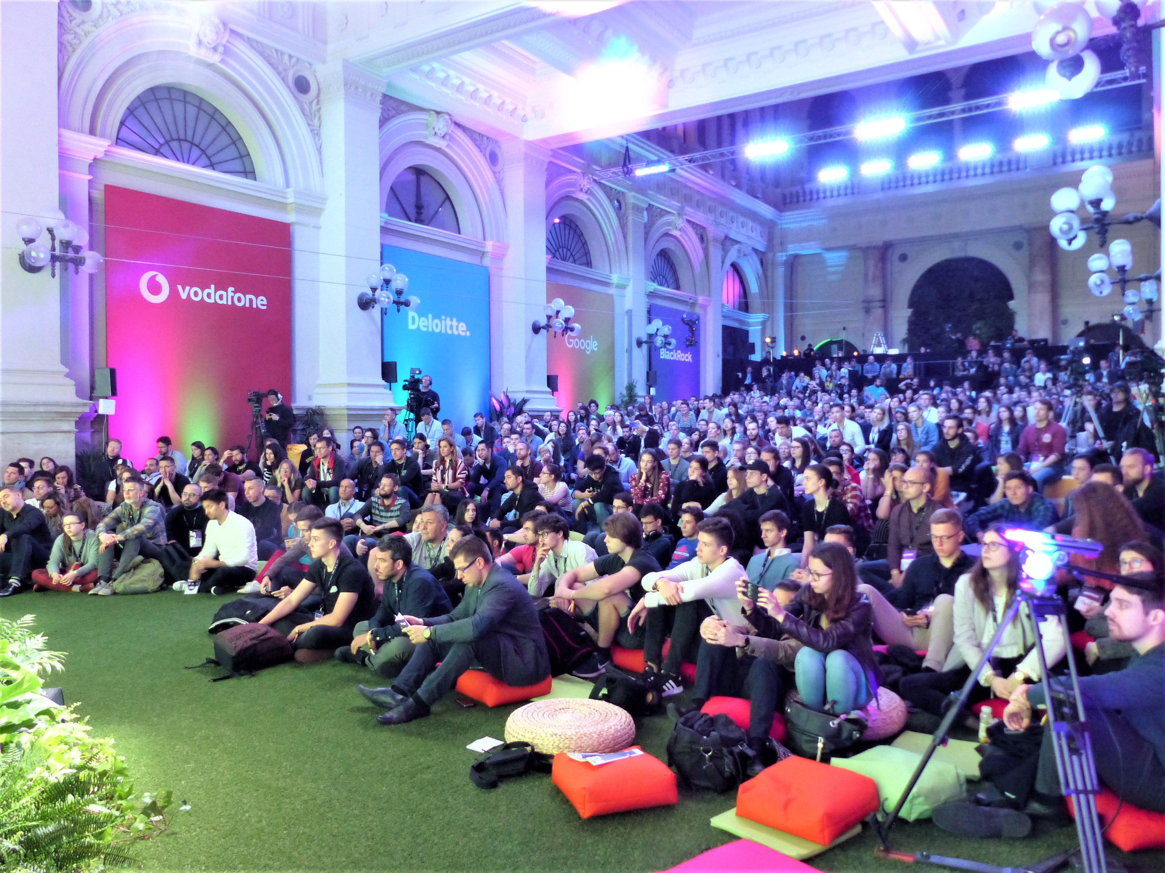 Audience listening to Jim DiMatteo. Taken on the 30th of May, 2019. Brain Bar 2019, the first day - Big Hall. Corvinus University, Budapest.